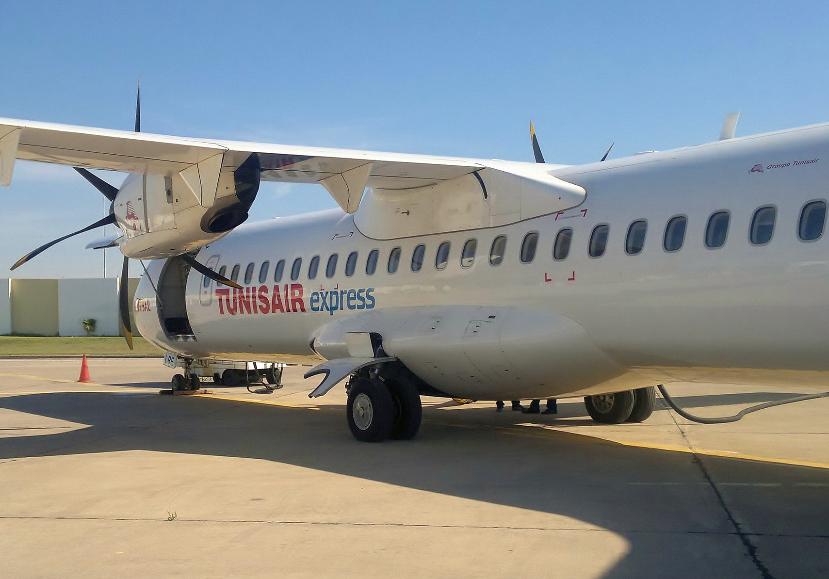 Tunisair Expres, TS-LBE in DTTA